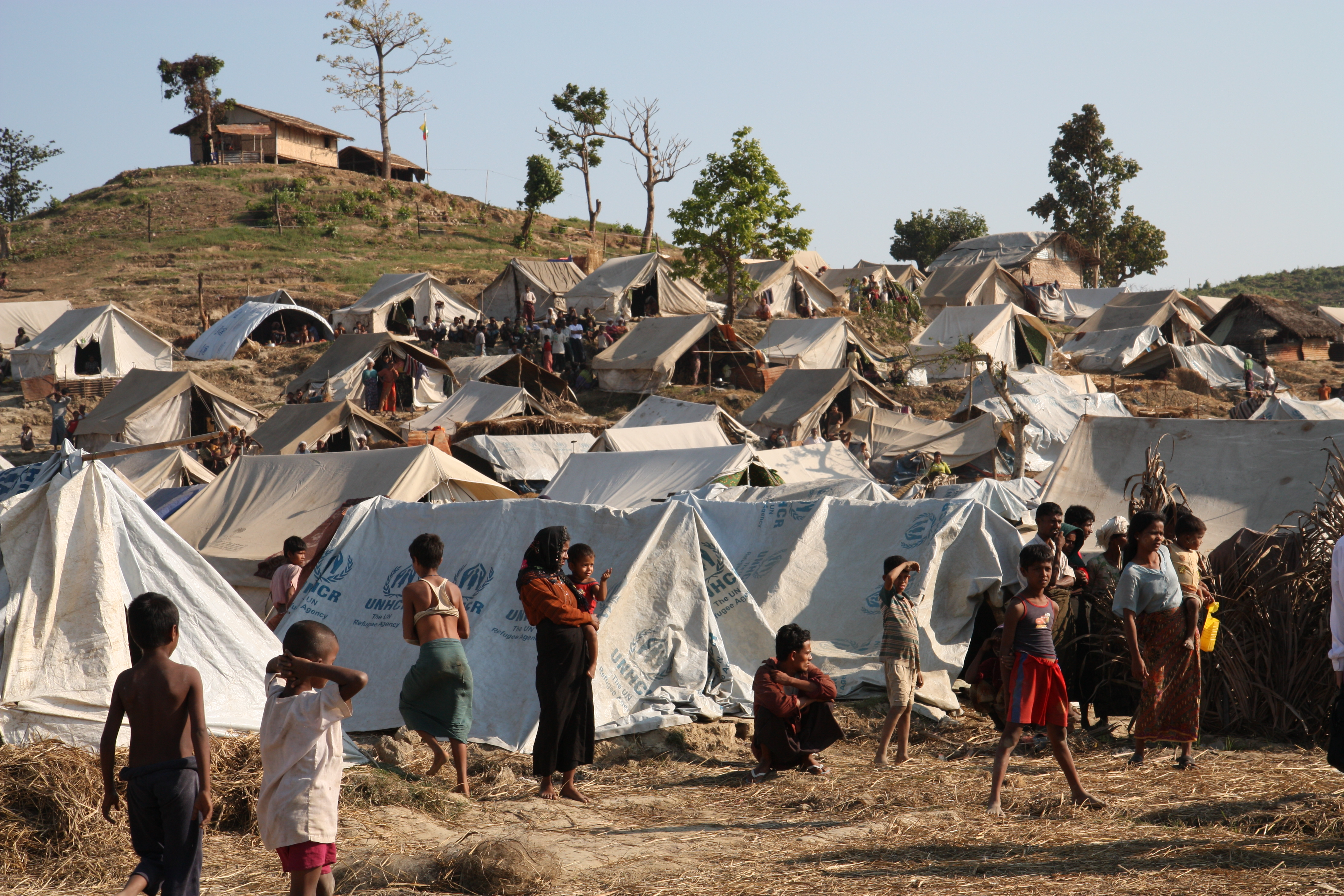 Britain has pledged emergency food, drinking water and shelter to help people displaced in Rakhine State in western Burma. In May 2013, Minister for International Development Alan Duncan and Foreign Office Minister for South East Asia Hugo Swire announced a £4.4 million package of humanitarian support for people displaced by violence and facing the additional threats of the rainy season and approaching storms. Britain’s package of emergency assistance will provide: - Nearly 80,000 people with access to safe drinking water and improved sanitation facilities malnourished children aged 0-59 months with treatment for acute malnutrition in rural camps - hygiene kits to nearly 40,000 people Picture: DFID Burma